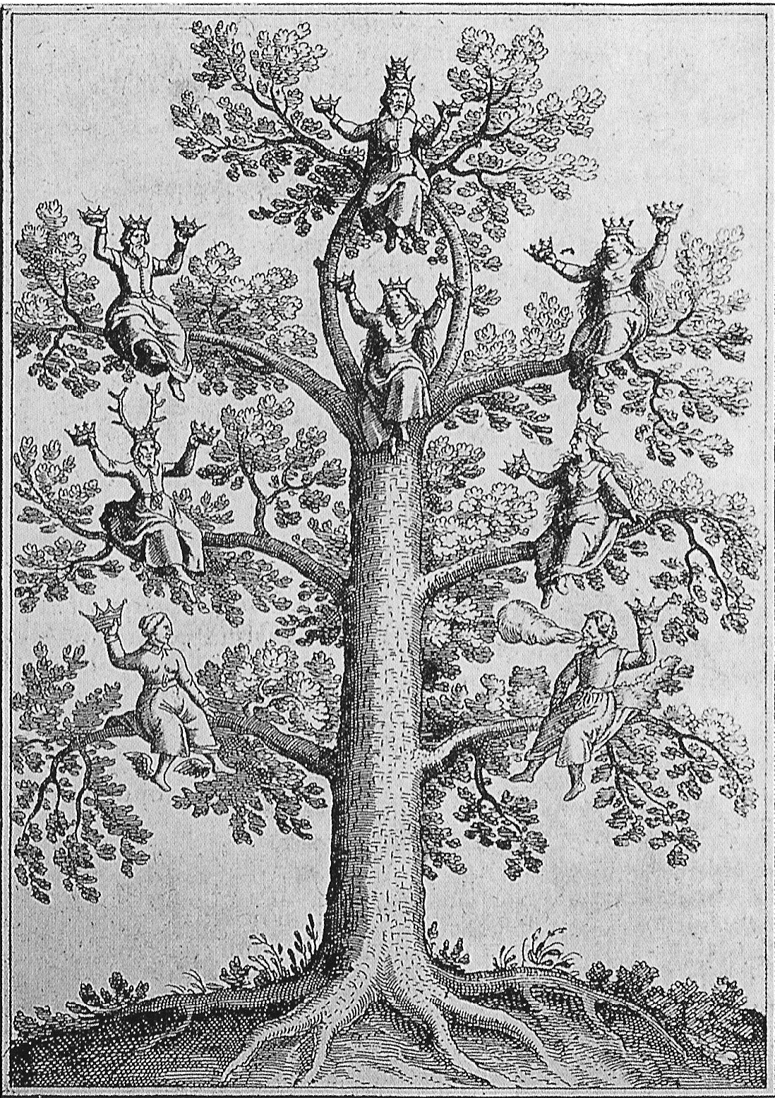 opus magnum - Book illustration of Johann Daniel Mylius, Anatomia Auri, sive Tyrocinium Medico-Chymicum.